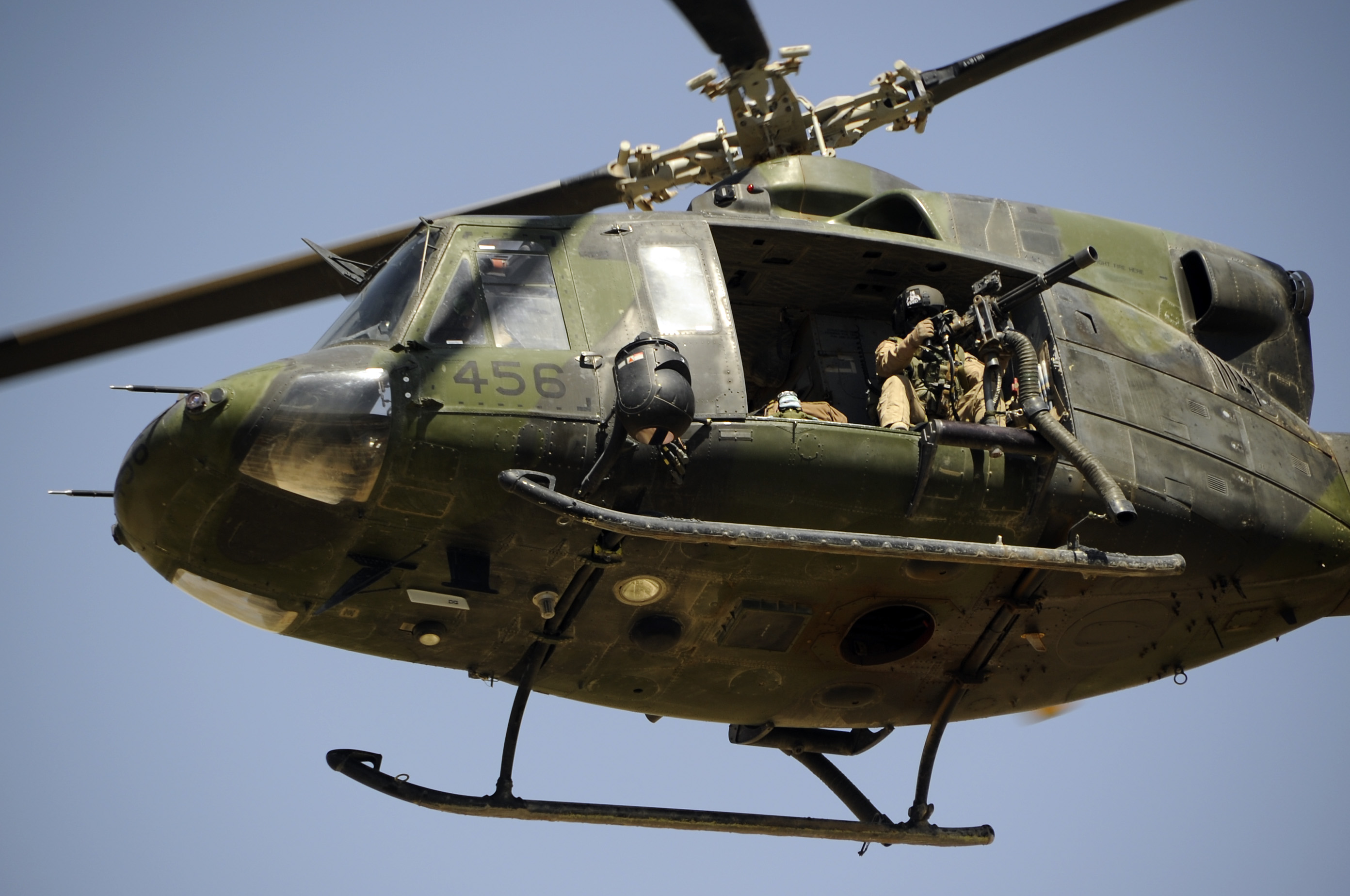 A Canadian CH-146 helicopter provides close air support to Coalition forces on the ground during a clearing operation involving Afghan National Army Commandos and Soldiers of Special Operations Task Force -- South Sept. 21, 2010 in the village of Chalgor, Panjwa'i District, Kandahar Province, Afghanistan. The combined force conducted the operation to clear the town of insurgent elements and clear improvised explosive devices in order to make the area safer for local villagers and Coalition forces. (U.S. Army photo by Spc. Jesse LaMorte / Special Operations Task Force -- South).